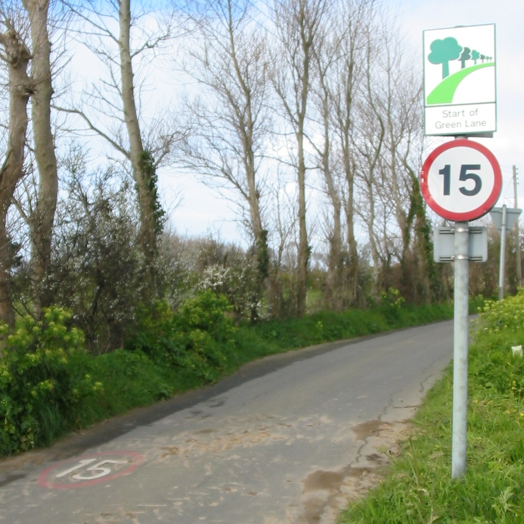 Jersey Nrf: Jèrri